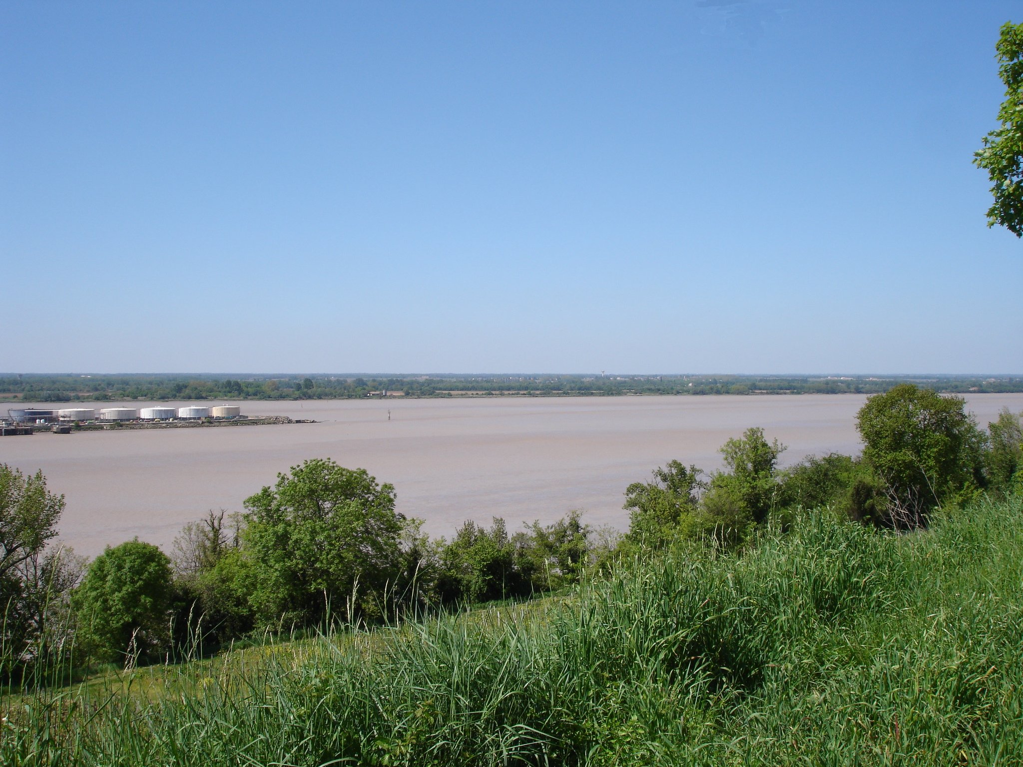 France, Gironde (33), Gironde estuary and bec of Ambès